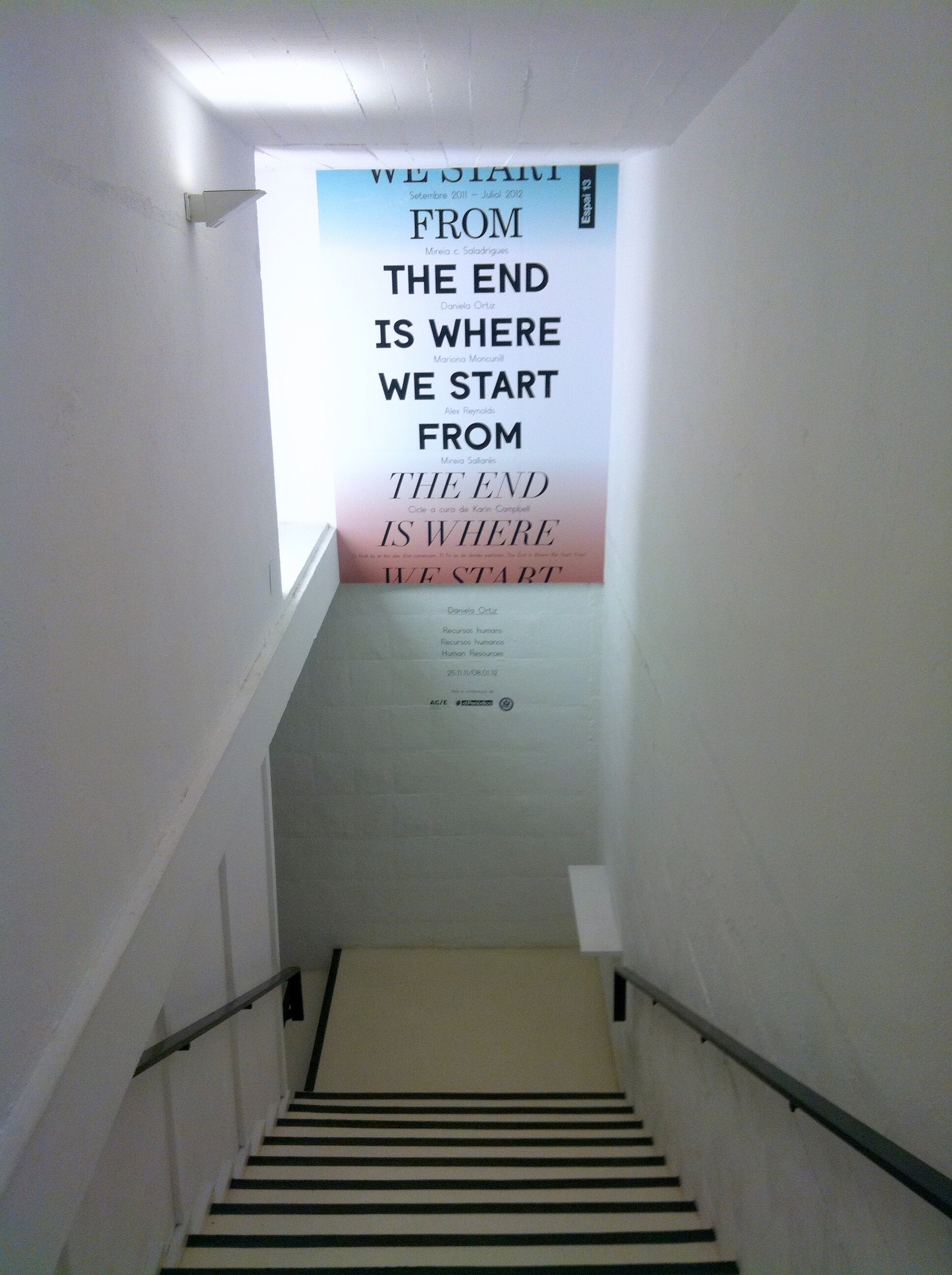 Espai 13- Temporary exhibits Room at Fundació Joan Miró